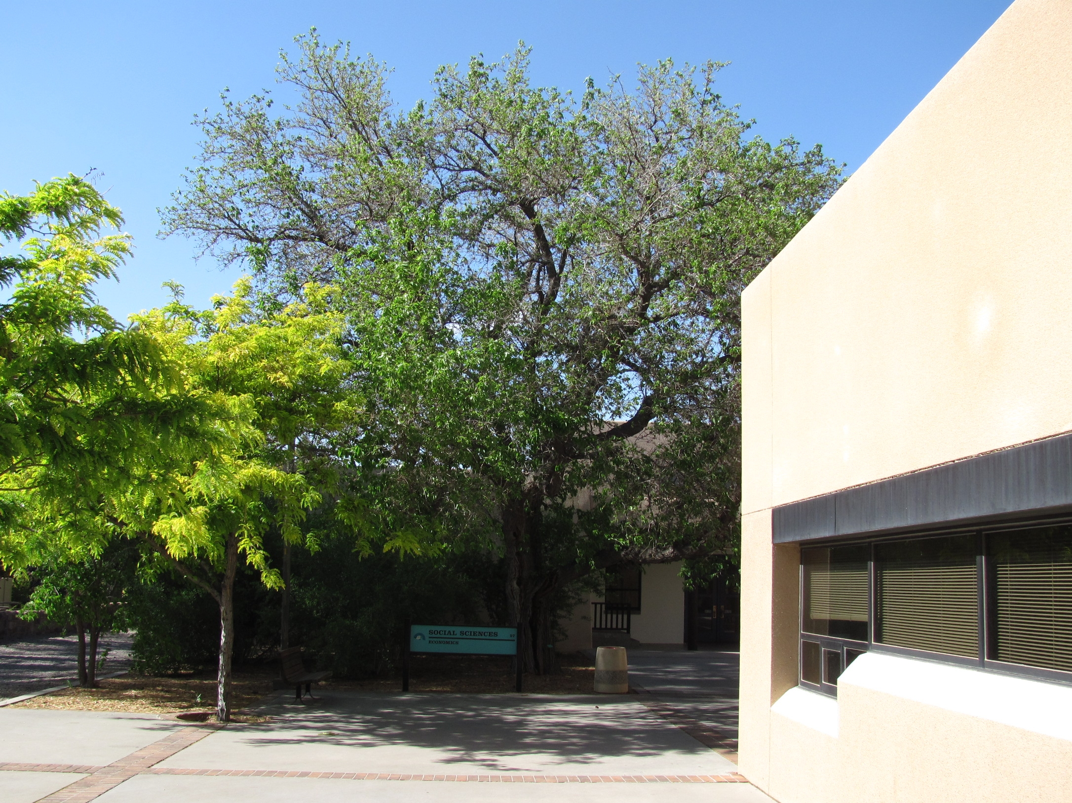 Morus Alba, UNM Arboretum, Albuquerque New Mexico